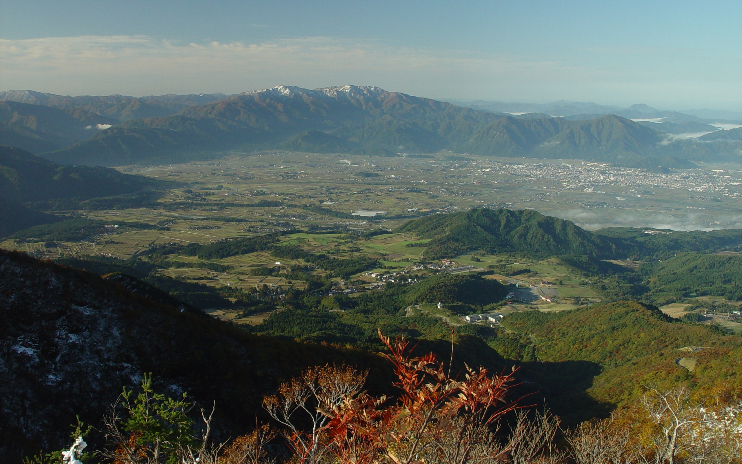 Rokuroshi Highland, Ōno Basin, Mount Genan and Mount Heko seen from Mount Kyo in Ōno, Fukui Prefecture, Japan.